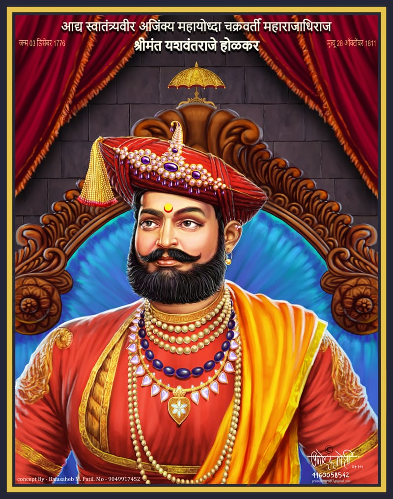 चक्रवती येशवंतराजे होळकर